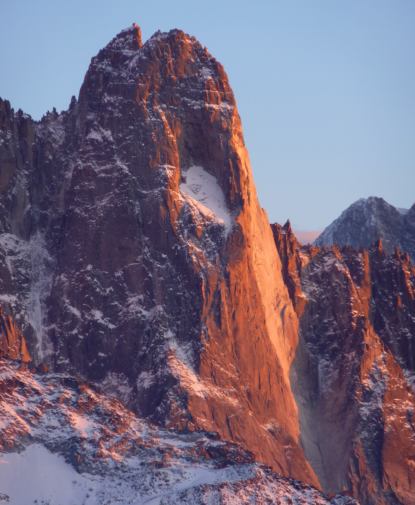 Les Drus - North face